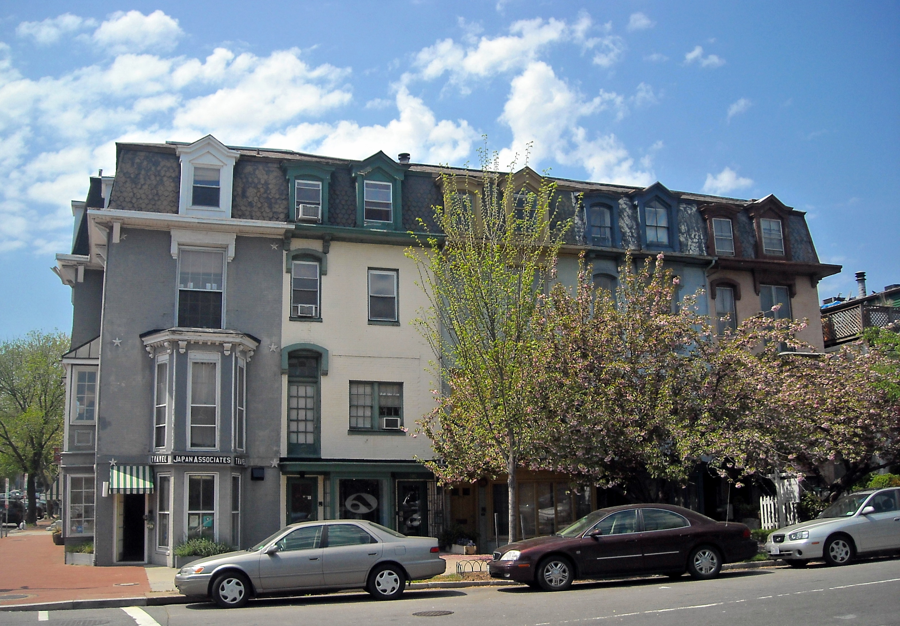 Second Empire-style row houses, located at 2000–2008 17th Street, N.W., in the U Street Corridor of Washington, D.C. Built in 1875, the homes are contributing properties to the Strivers' Section Historic District, listed on the National Register of Historic Places in 1985. Frederick Douglass built 2000, 2002, and 2004 17th Street, N.W. His son inherited the properties and lived at 2002 17th Street, N.W., from 1877 until his death in 1908.